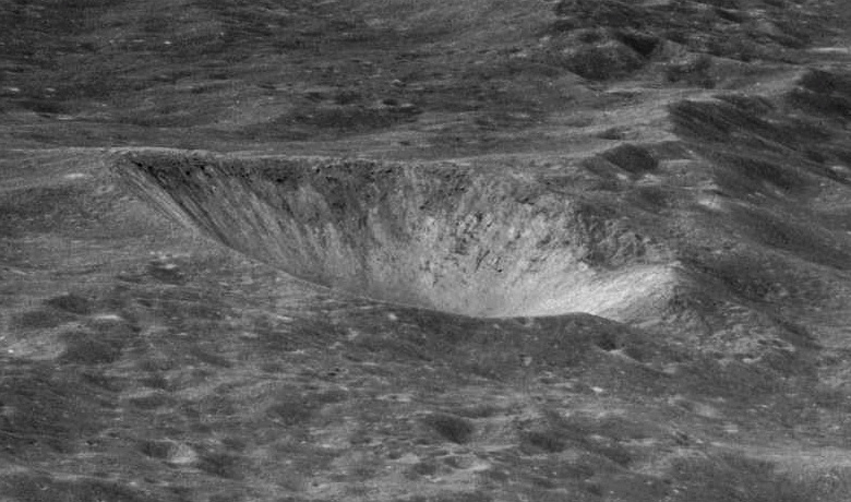 Oblique view of Recht crater, on the far side of the moon. Ostwald crater is in the background.